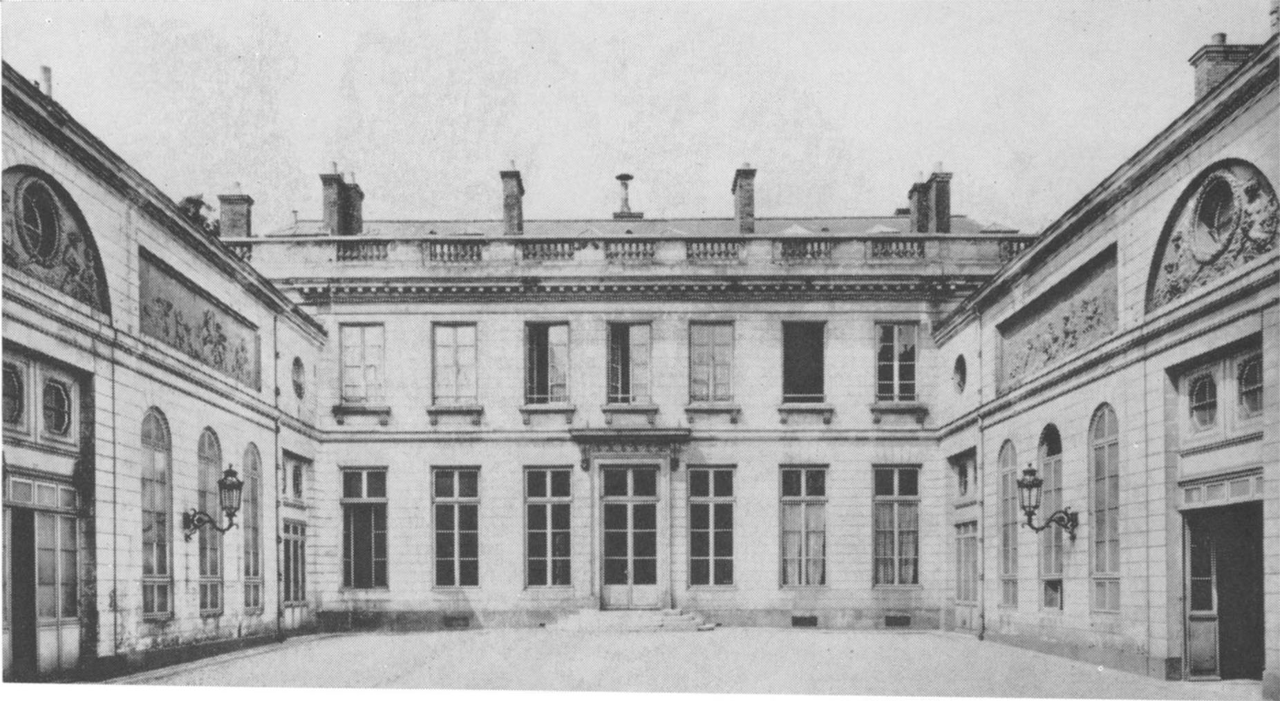 Interior courtyard and corps de logis of the Hôtel de Mademoiselle de Condé. Building completed ca. 1782. Architect: Alexandre-Théodore Brongniart.